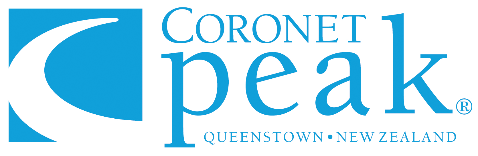 Logo of Coronet Peak, Queenstown (New Zealand)